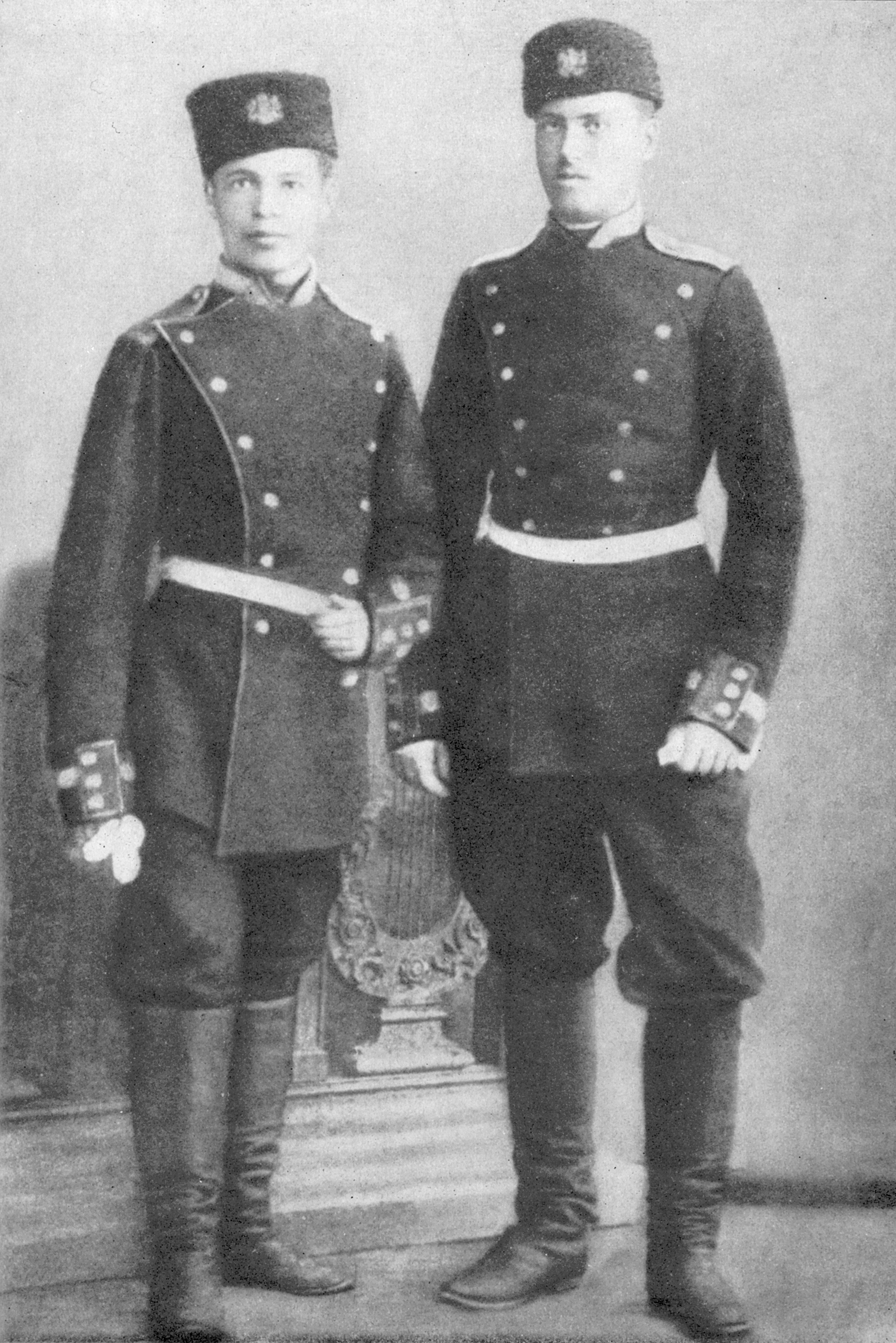 Gotse Delchev and Gotse Imov